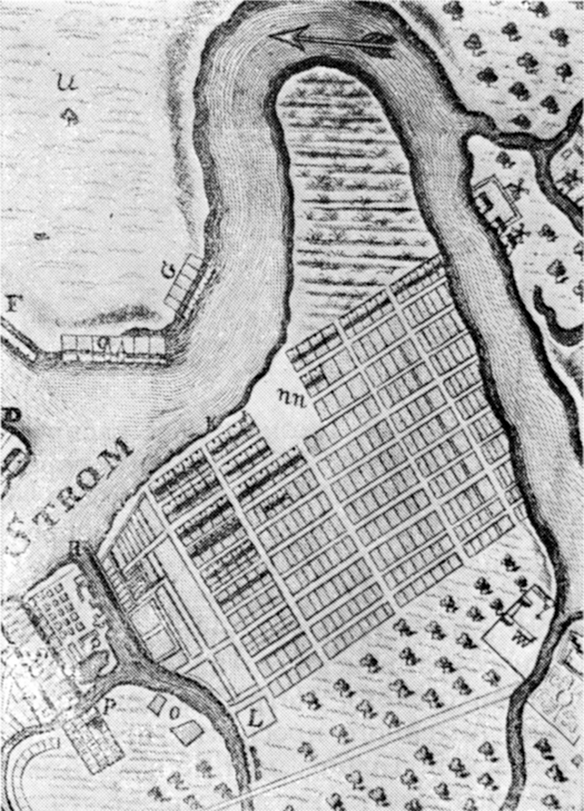 The fragment of Saint Petersburg plan 1720s